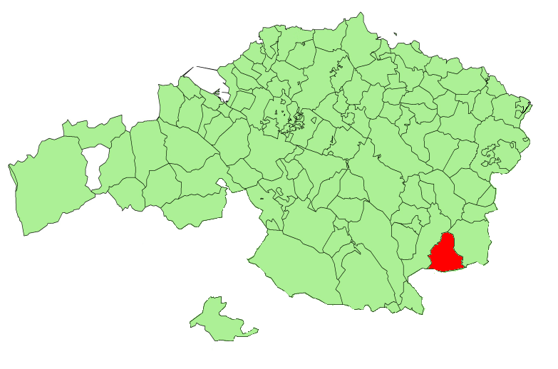 Atxondo municipality in the province of Biscay